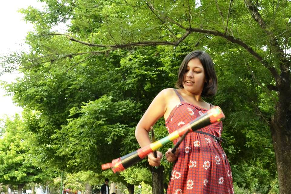 Juggling with handmade conic devil stick